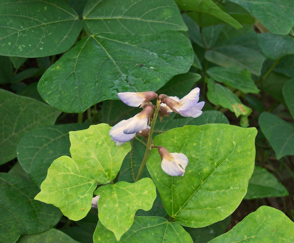 Pachyrhizus erosus, leaves and flowers. Darmaga, Bogor, West Java, Indonesia.